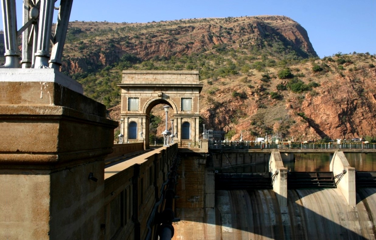 Hartbeespoort Dam wall in Magaliesberg between Johannesburg and Pretoria, South Africa